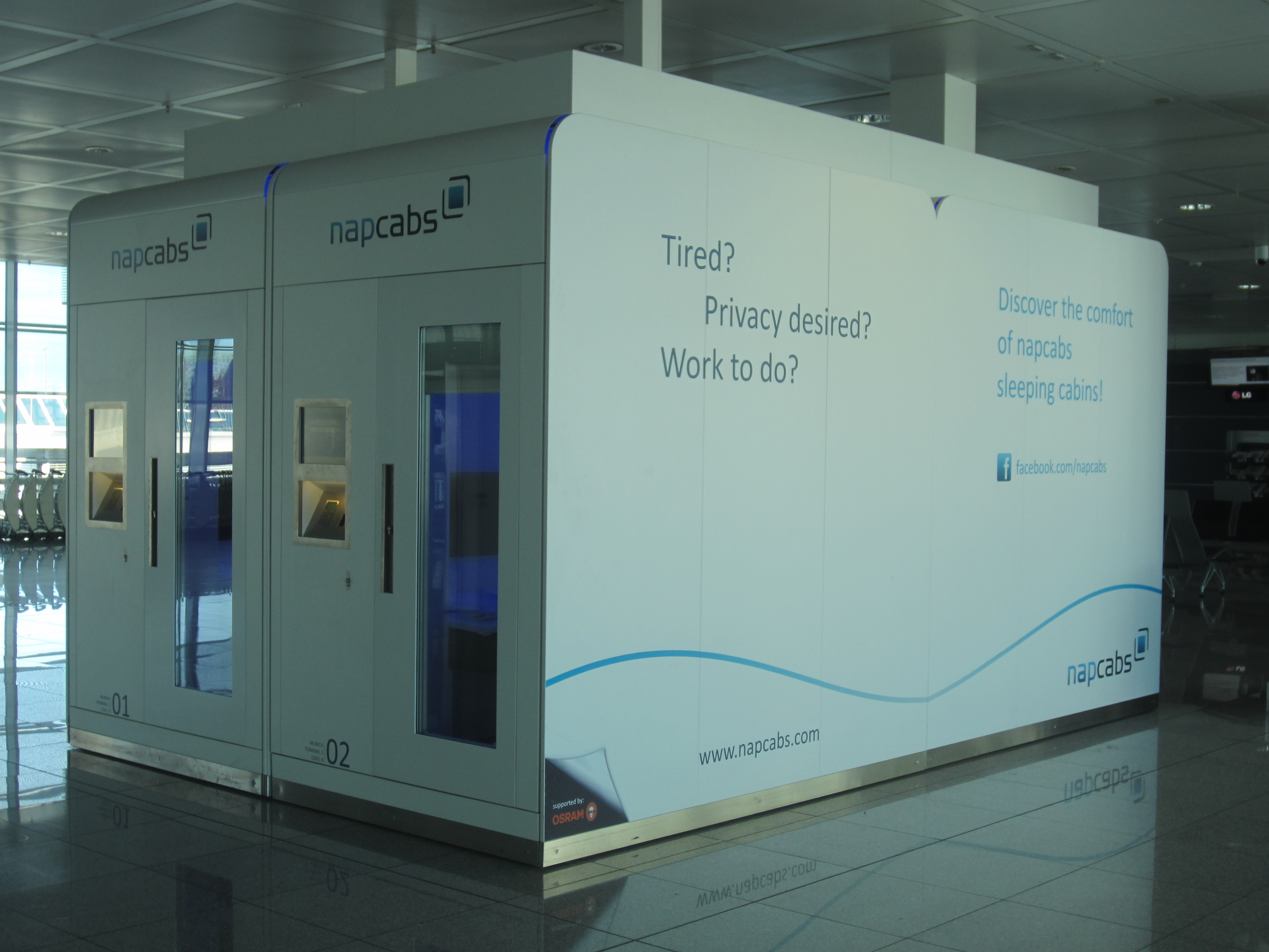 So I went back home for a few minutes, and then left again on my way...somewhere. And on the way there, I stopped in the Munich Airport for a few hours and was intrigued by this crazy napcab. You can pay money to go in this thing and sleep. I can't imagine it, but hopefully it is really comfortable. And I also hope there is a curtain on the inside of this thing, cause otherwise you're just sleeping here with everyone on the outside staring at you.